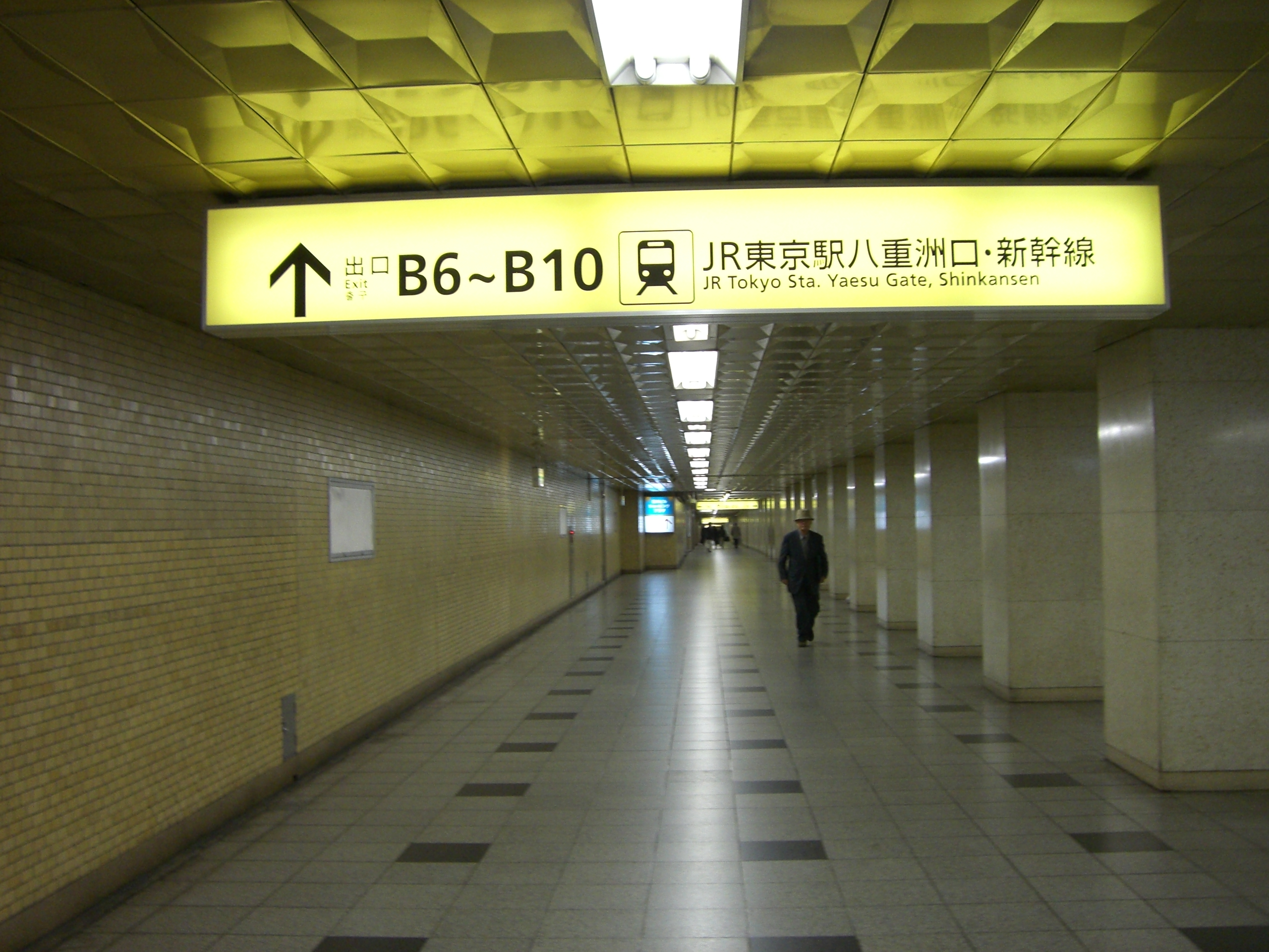 Tokyo Metro Otemachi Station